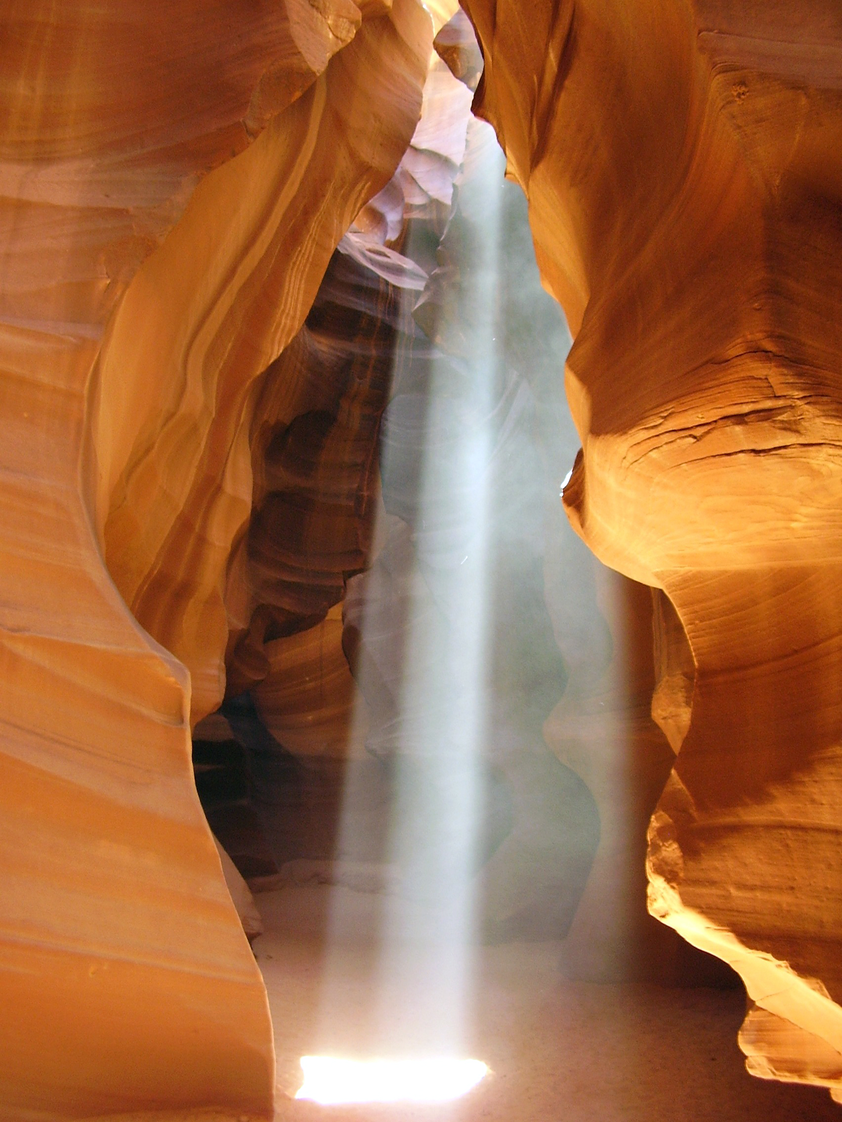 The Antelope Canyon in Arizona.